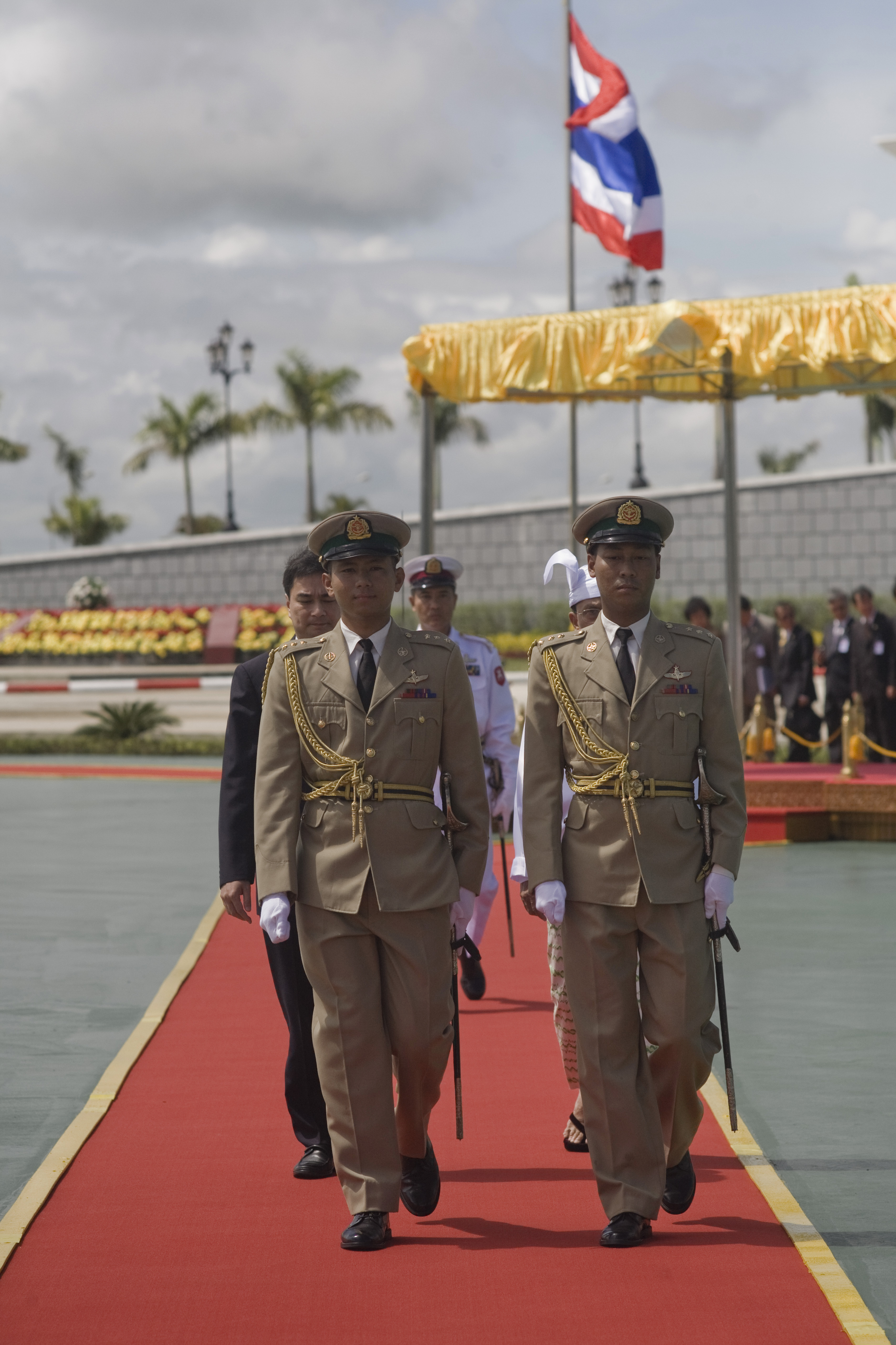 Burmese Defence Services personnel (Air Force), Naypyidaw at reception of Thai delegation